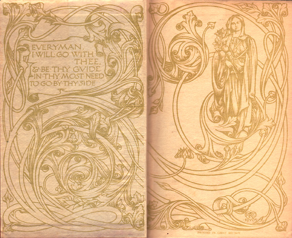 Endpapers of the original run of books in the Everyman's Library, 1906, based on the art of William Morris's Kelmscott Press (Arts and Crafts movement style). Quote from the play Everyman.